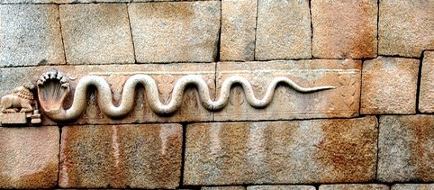 Chitradurga_fort_entrance